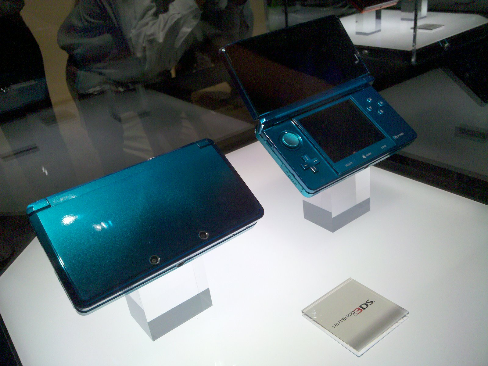 Nintendo 3DS